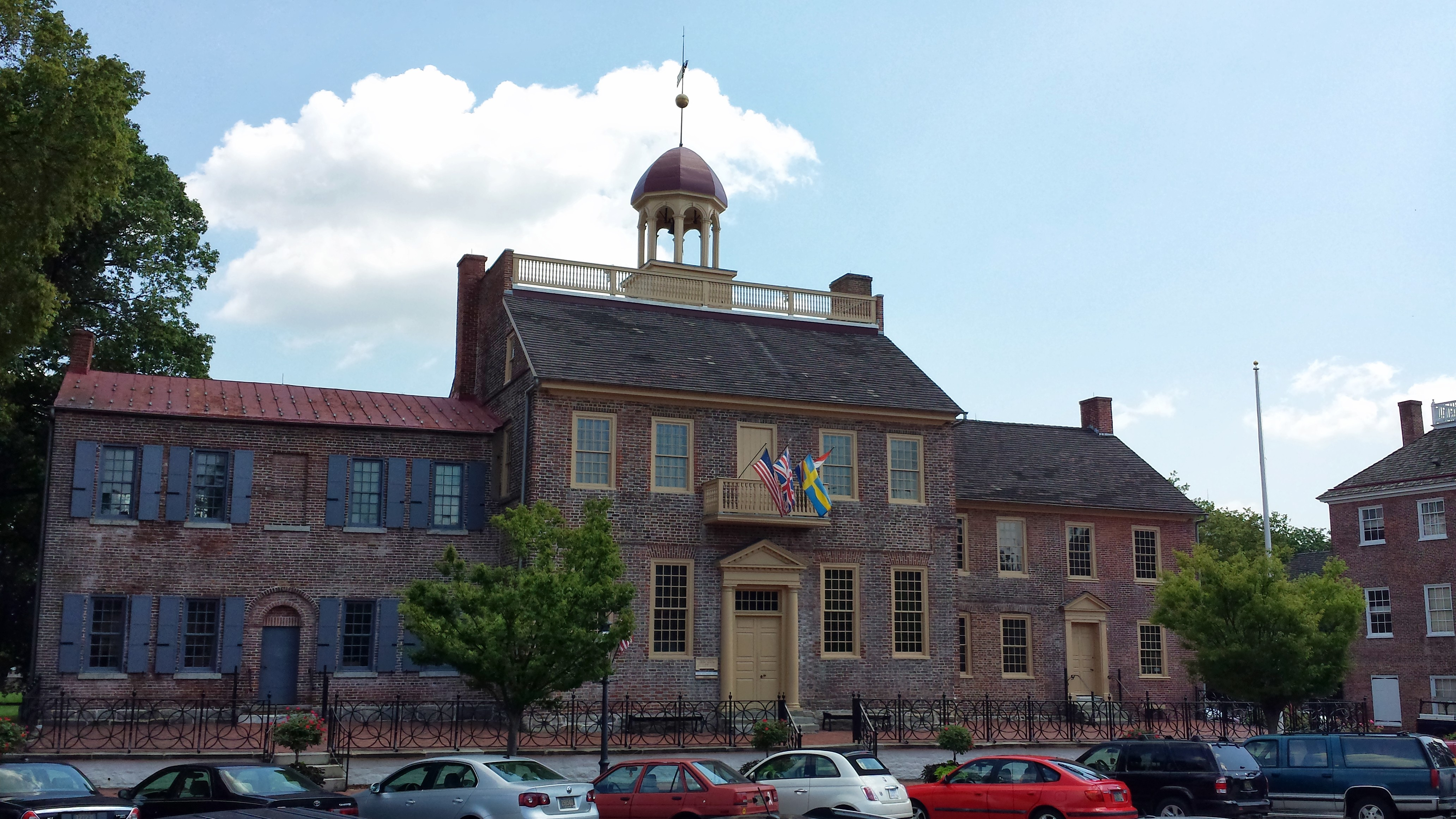 New Castle Court House Museum, New Castle, Delaware